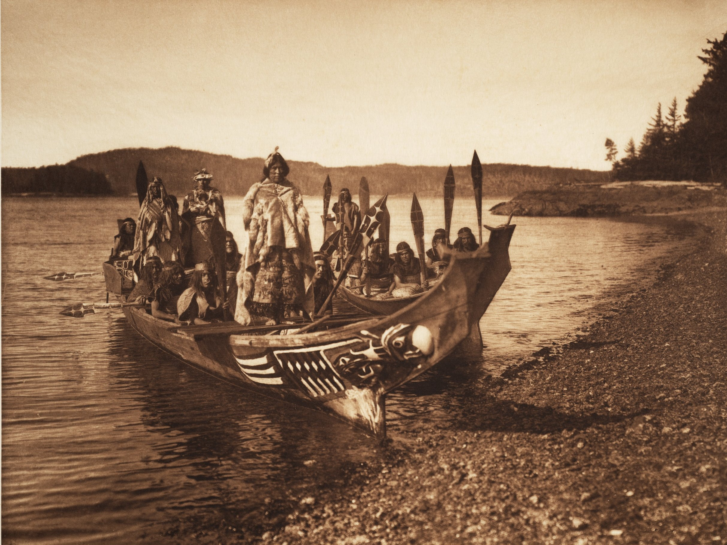 Description: This image was taken c. 1907-1930. Creator/Photographer: Edward S. Curtis Birth Date: 1868 Death Date: 1952 Medium: Photogravure Culture: American Indian Date: Prior to 1930 Repository: Smithsonian Institution Libraries Collection: The North American Indian Photography of Edward Curtis - Edward S. Curtis, a professional photographer in Seattle, devoted his life to documenting what was perceived to be a vanishing race. His monumental publication The North American Indian presented to the public an extensive ethnographical study of numerous tribes, and his photographs remain memorable icons of the American Indian. The Smithsonian Libraries holds a complete set of this work, which includes photogravures on tissue, donated by Mrs. Edward H. Harriman, whose husband had conducted an expedition to Alaska with Curtis in 1899. Accession number: SIL7-058-021